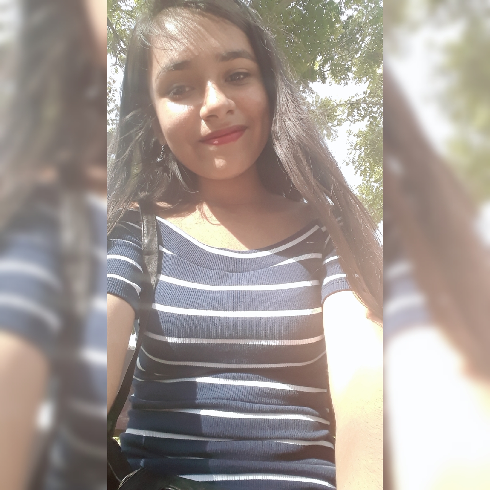 Vertical cell phone selfie with blurred pillarbox bars to fit image to a square format. The effect is called 'echoing'.